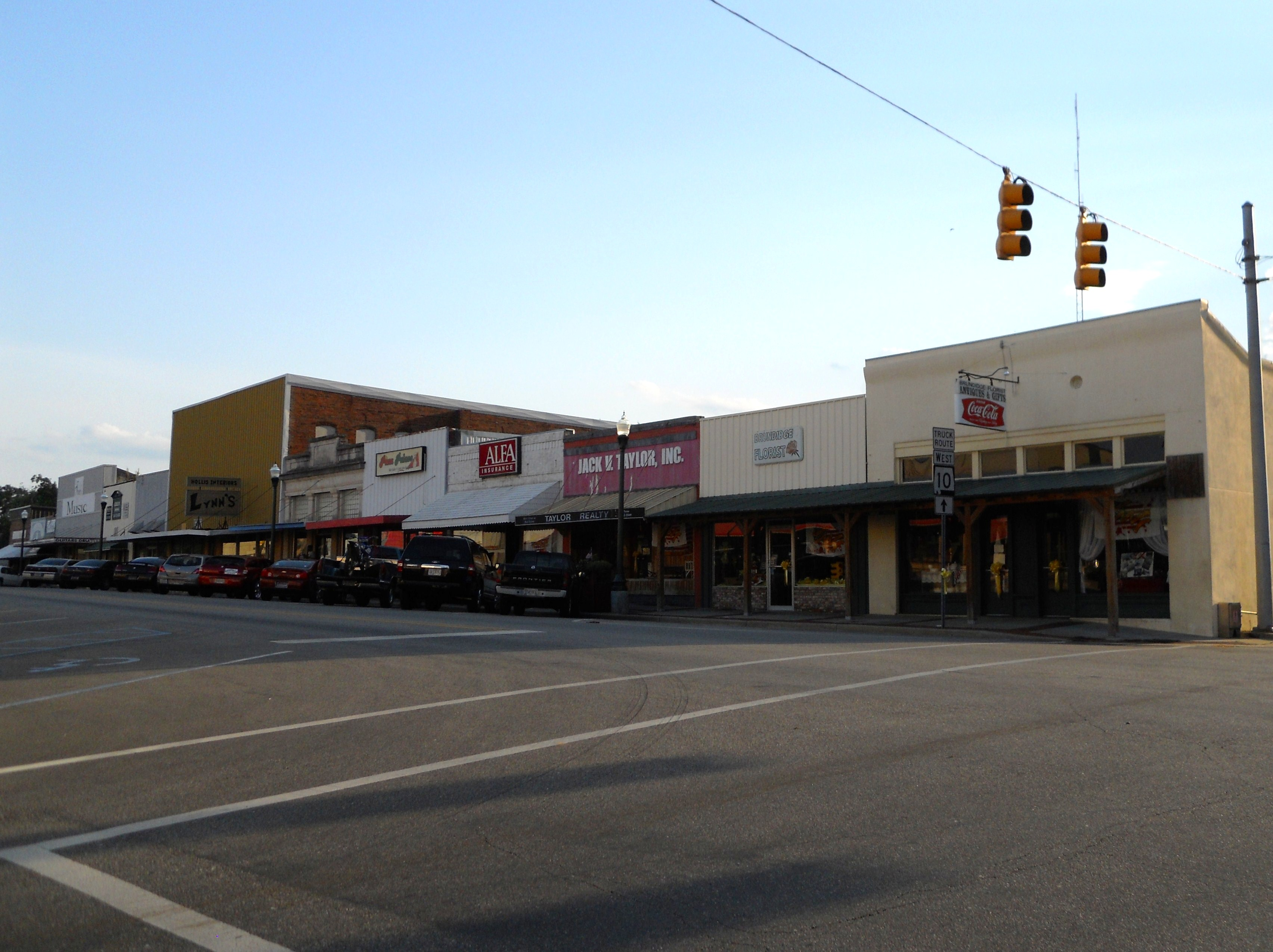 This is a photograph of Brundidge, Alabama